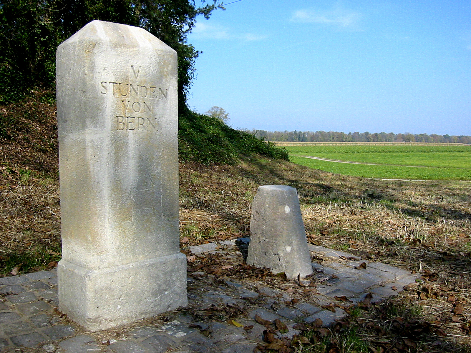 Milestone "V hours from Berne"; at the Aar canal between Hagneck and Kallnach, Berne, Switzerland